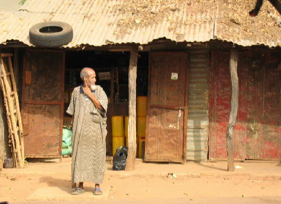 Soma, streetscenes